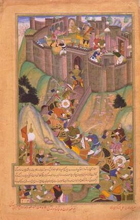 Moghul imagination of Hulegus' siege of Alamut in 1256